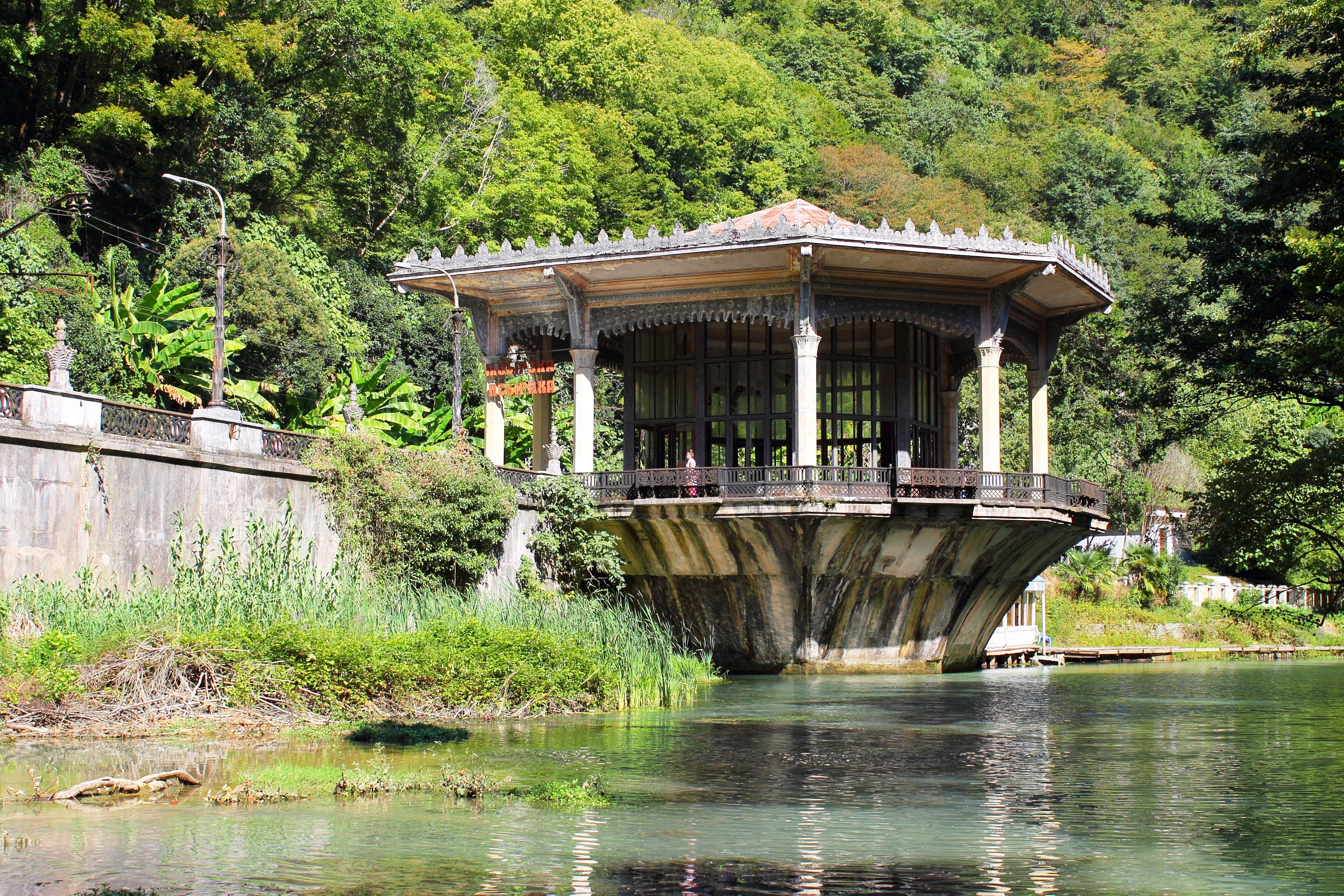 Railway platform of Psyrtskha in Abkhazia, New Athos. View from side of the river of Psyrtskha. It is partially damaged during the Abkhaz-Georgian war 1992-1993